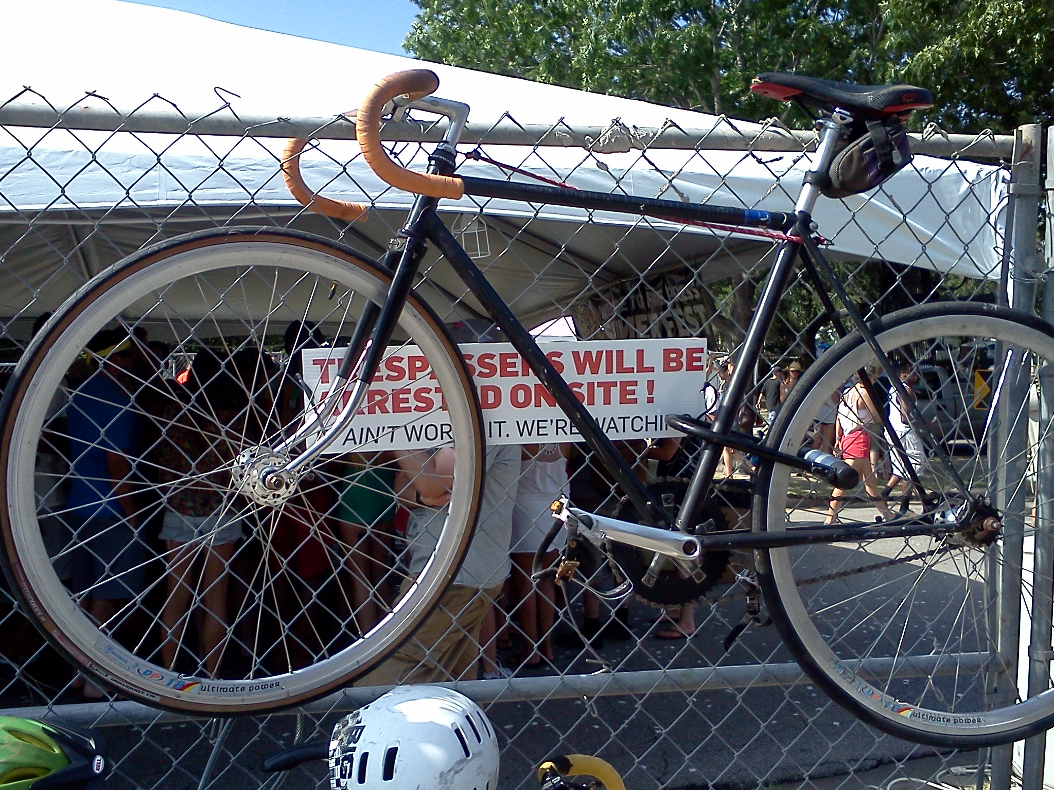 Bicycle hanging on fence at Houston Free Press Summer Fest 2012 at Eleanor Tinsley Park, Buffalo Bayou Park, Houston, Texas USA on June 2, 2012.